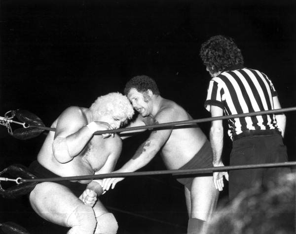 Dusty Rhodes and Harley Race battle each other